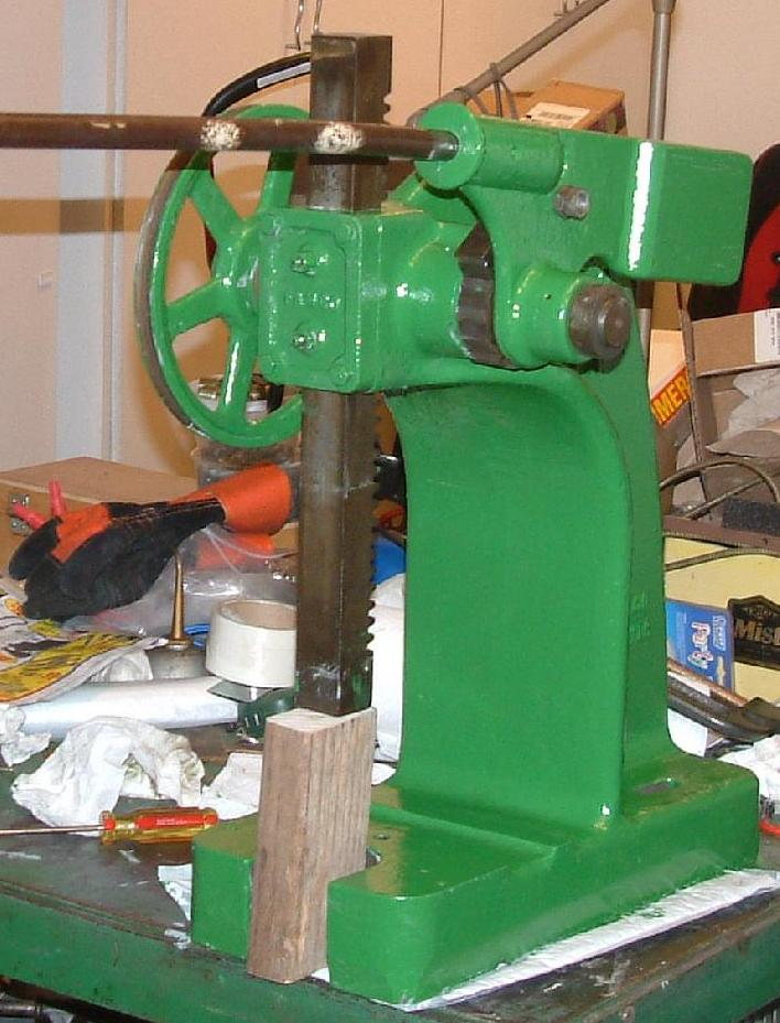 Famco 3R Ratcheting Arbor Press